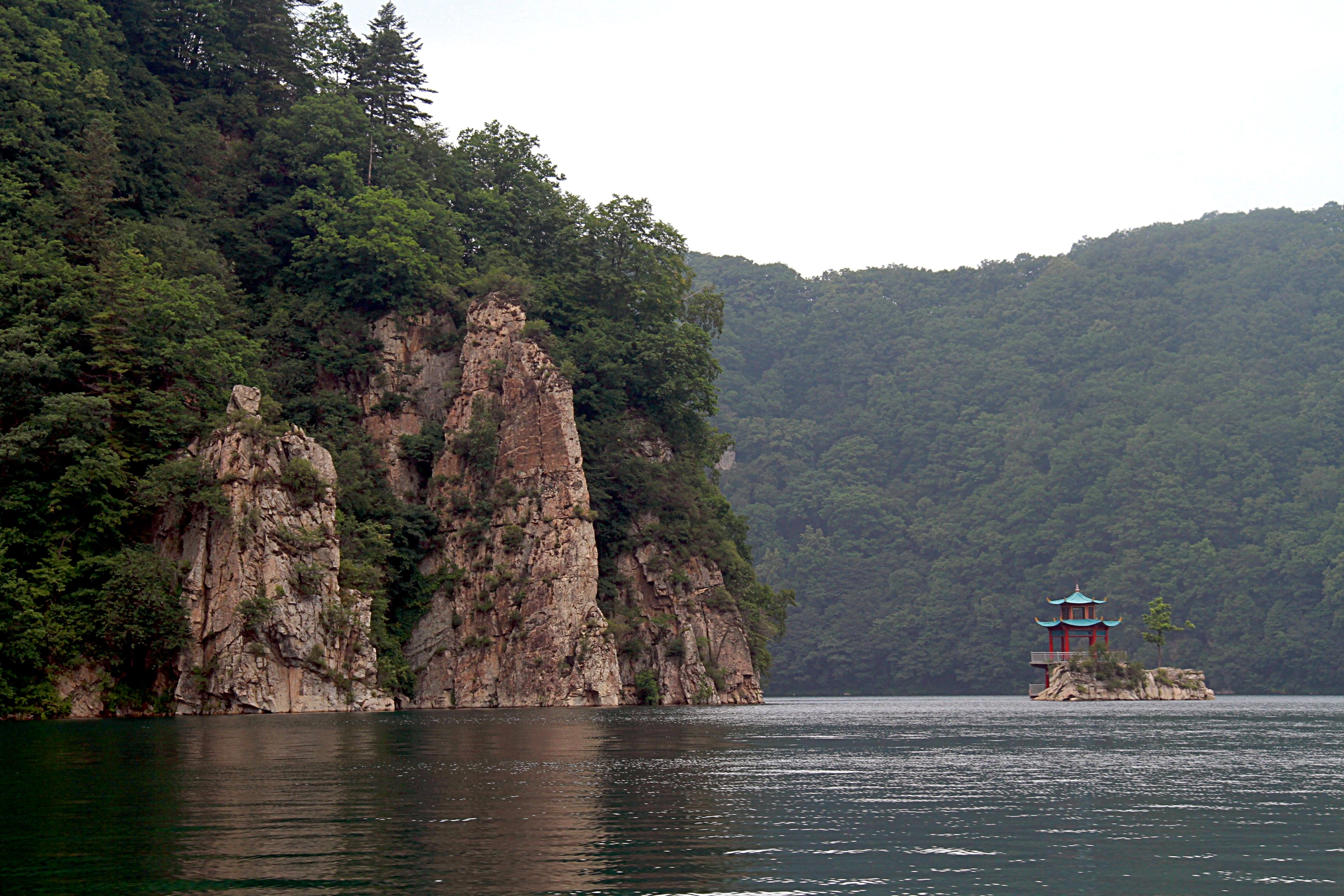 Photograph of the Sanjiaolong Crater Lake in the Longwanqun National Forest Park, Huinan County, Jilin, China.